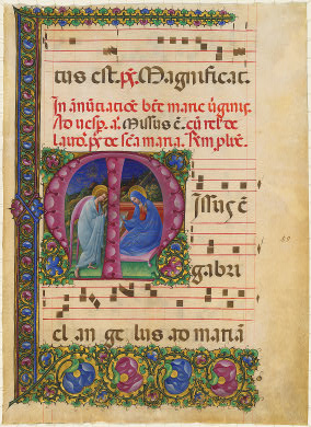 Belbello da pavia, annunciazione, rosenwald collection, washington national gallery (1450-60)